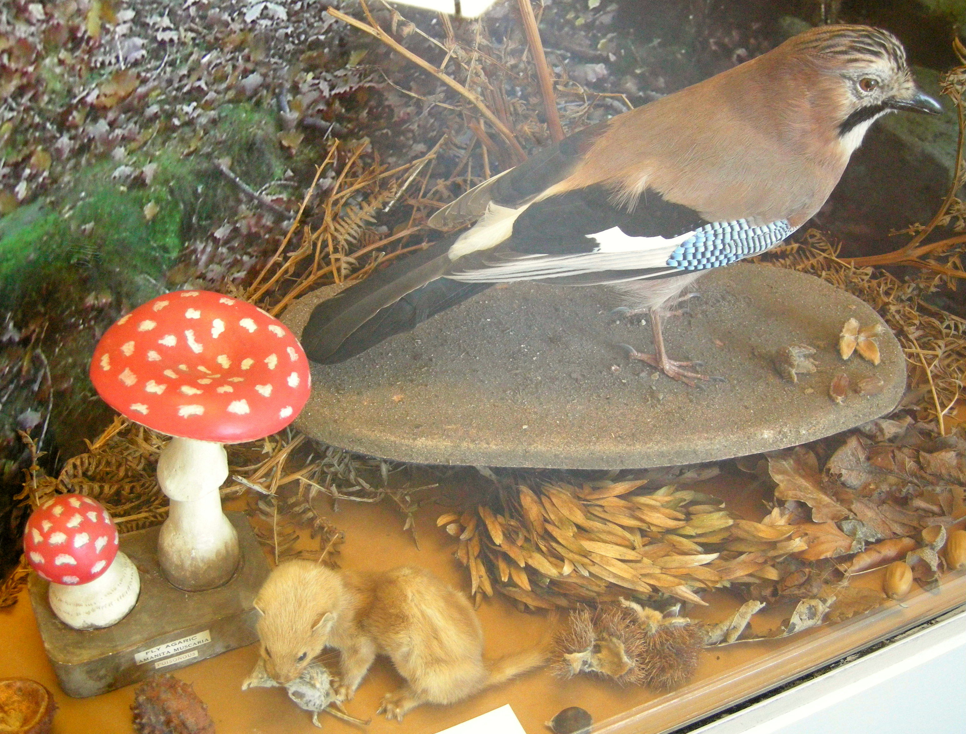 Nature display, including mounted weasel with shrew, mounted jay and model of fly agaric, in children's activity room at Bracken Hall Countryside Centre and Museum, Baildon, West Yorkshire, England. Photographed through glass.